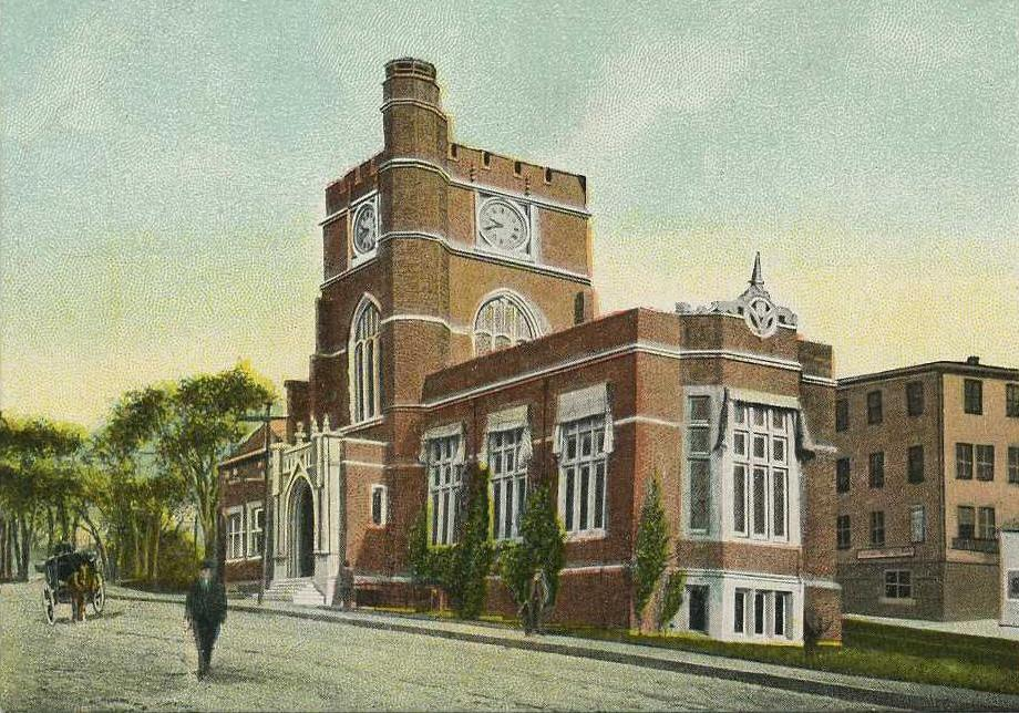 Hunt Memorial Library, Nashua, NH; from a c. 1906 postcard. Designed by Ralph Adams Cram, the library was built in 1903.